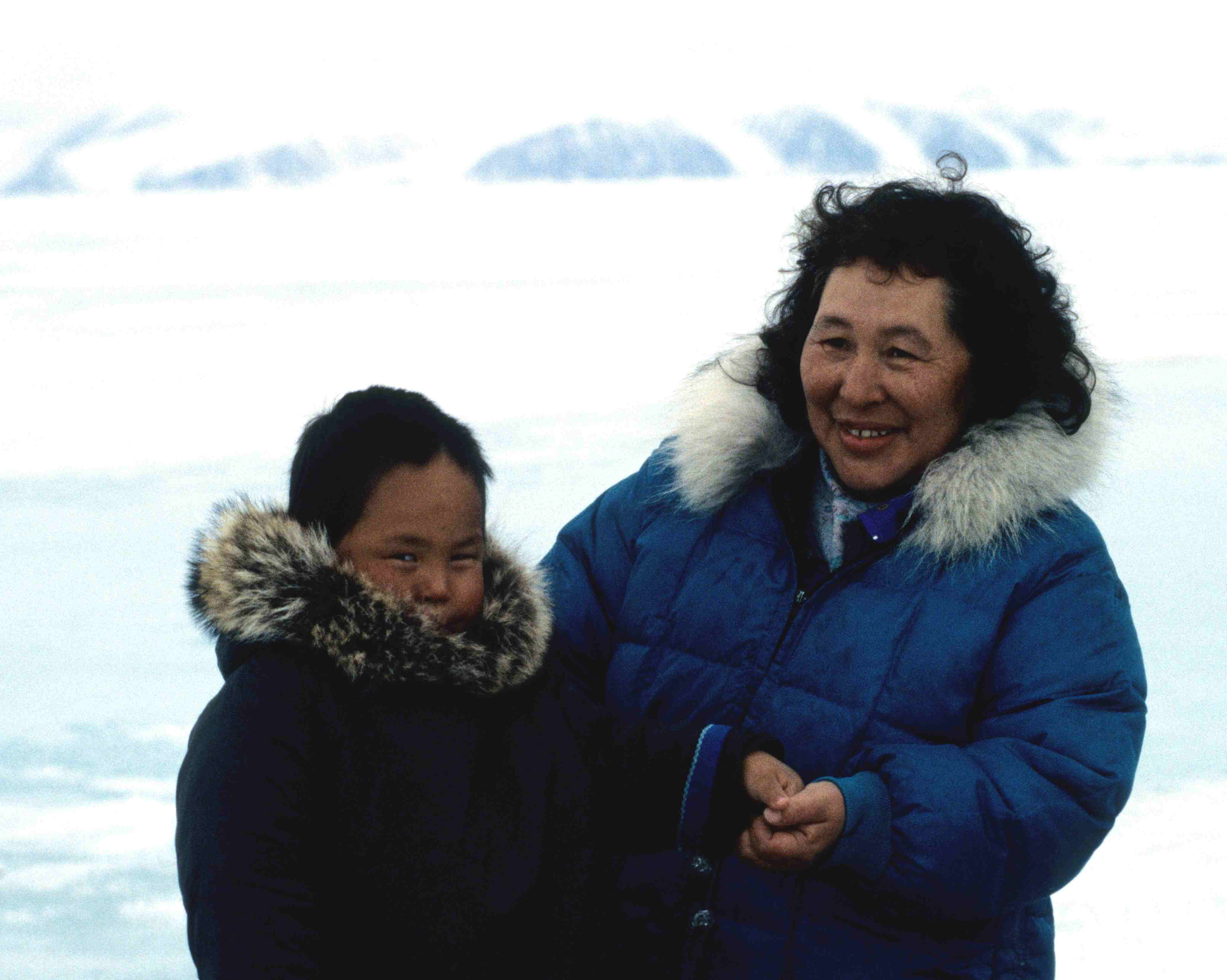 Inuit-grandmother and grandchild 1995 (Nunavut Territory, Canada)